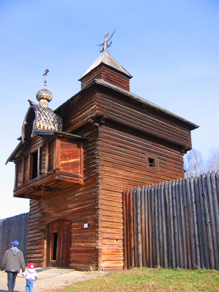 In open air museum of wooden architecture in Irkutsk, near Baikal lake